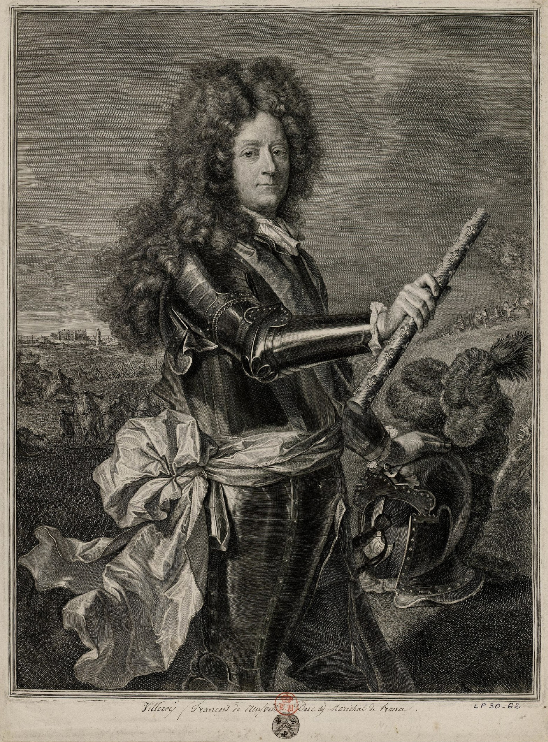 Engraved portrait of François de Neufville, duc de Villeroy